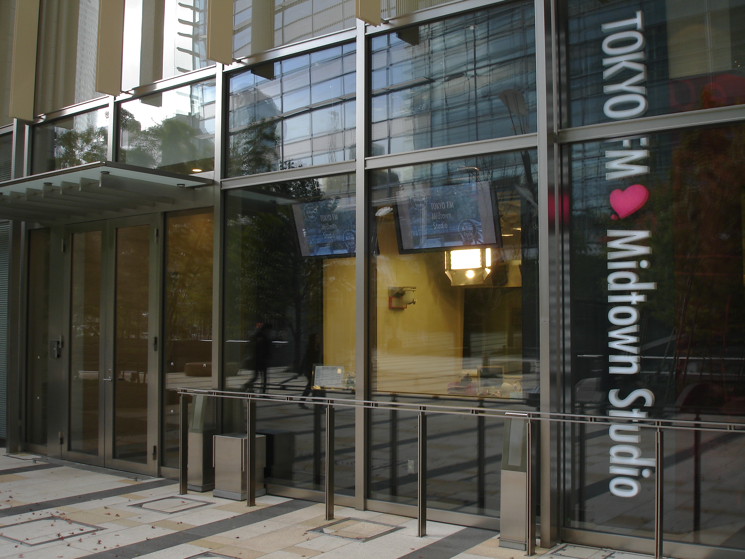 TOKYO FM (TFM) Midtown studio ,in AKASAKA-MIDTOWN (location is neighbourhood at the STARBUCKS COFFEE